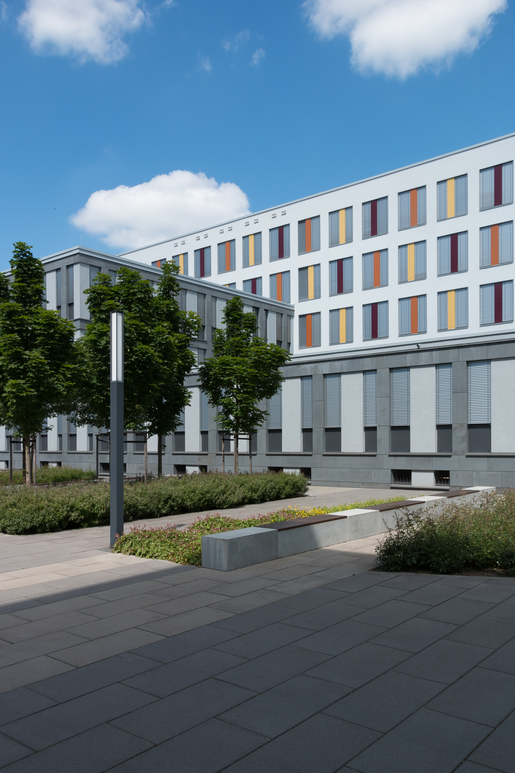 The Judiciary Center in Wiesbaden in der Mainzer Straße hosts several courts.